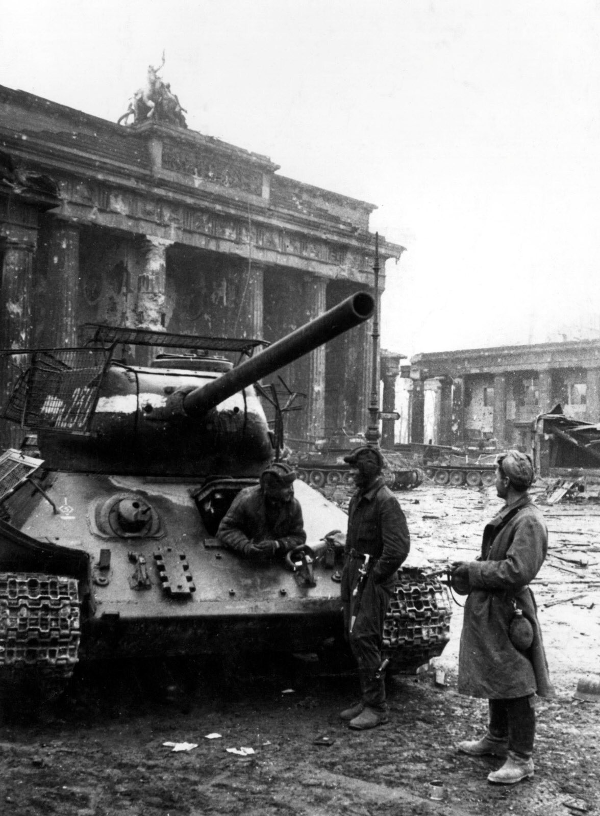 Soviet tank with bedspring near the Brandenburg Gate at Berlin (may 1945)